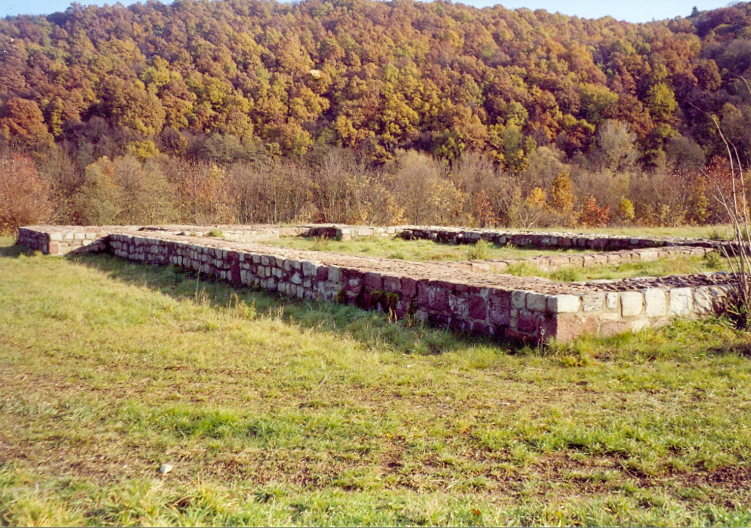 Monastery St.Dionysius in Kleinbrach, district of Bad Kissingen (Bavaria, germany). View to South East